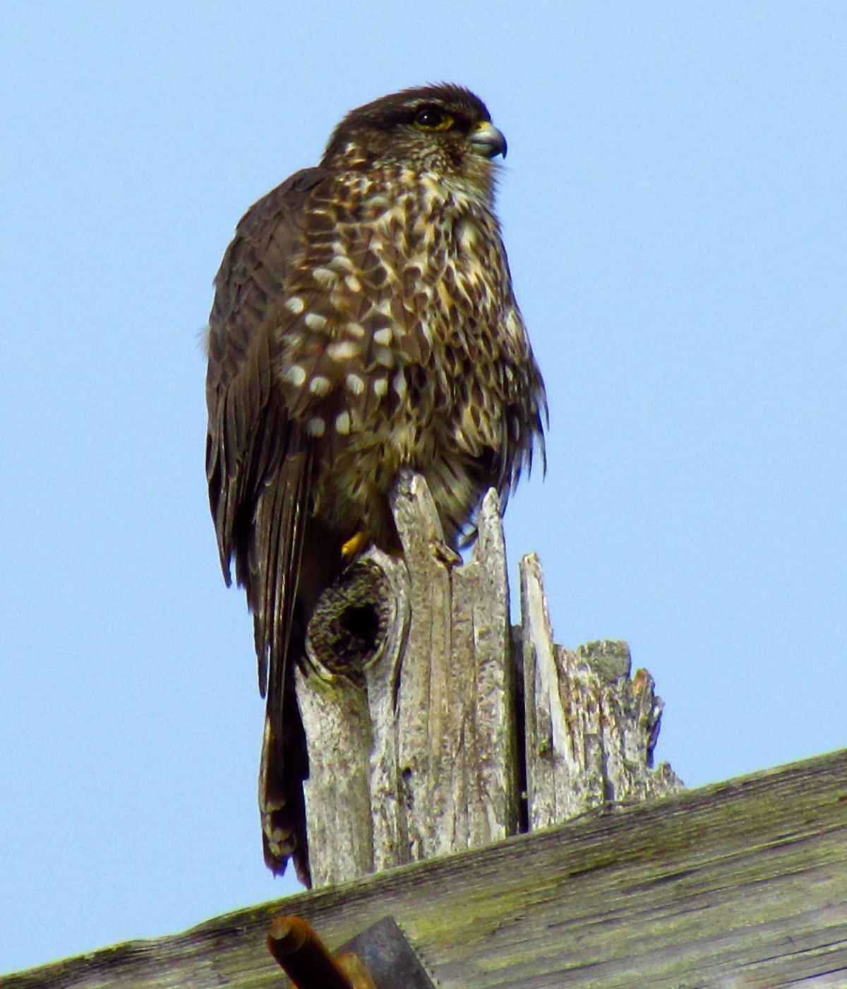 Merlin (Falco columbarius), juvenile on telephone pole, Ottawa, Ontario, Canada